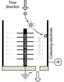 Schema of the functional principle of a electrostatic particle collector of a nano spray dryer.